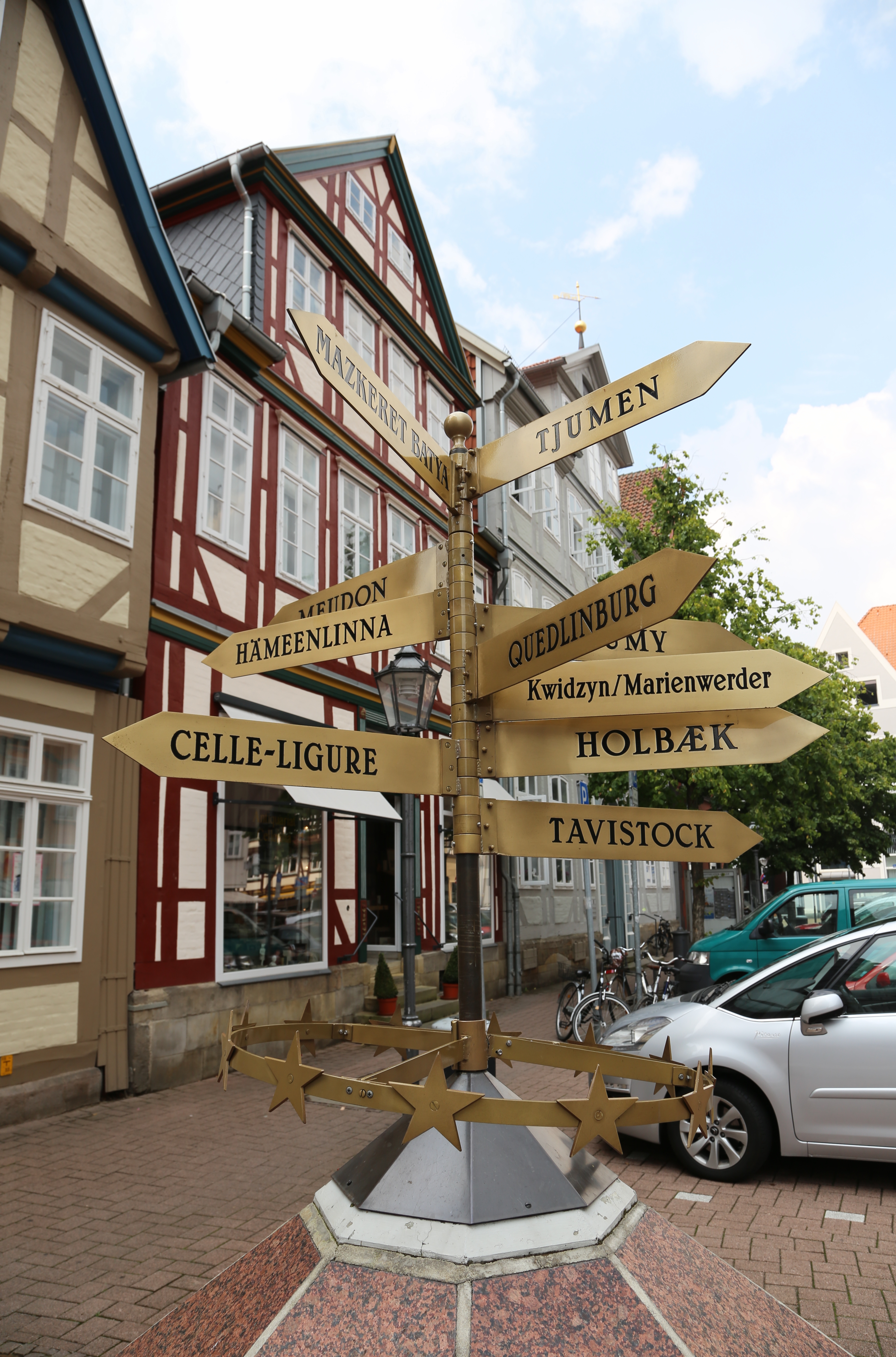 Celle, town in Northern Germany: signpost work of art with seals of enblems of the twinned towns / sister cities. Placed at street named "Markt" beside historic old town hall ("Altes Rathaus") in the center of the town where all the tourists pass by. (survey photography for the single photos of seals)